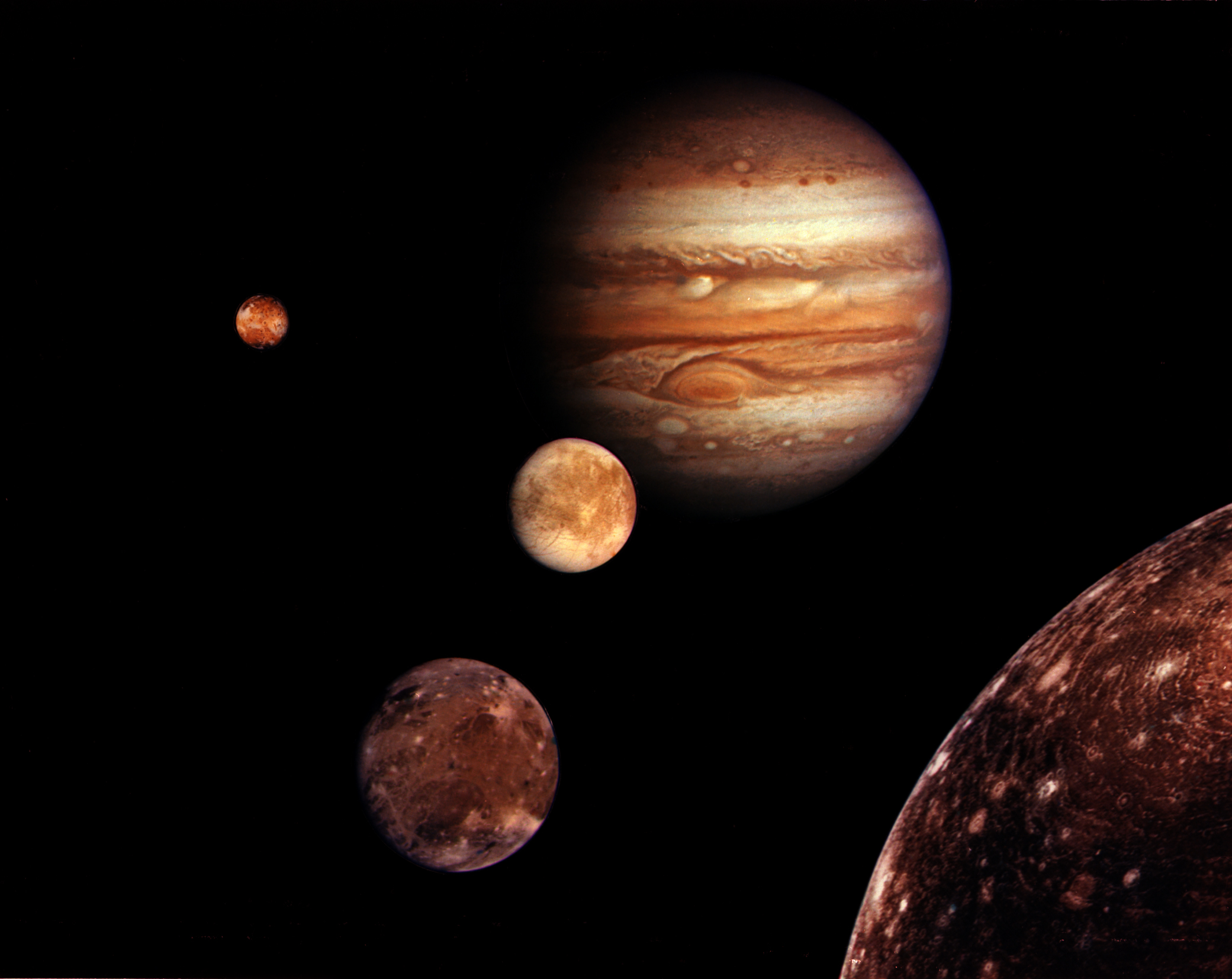 Montage of Jupiter and the Galilean satellites, Io, Europa, Ganymede, and Callisto, all photographed by Voyager 1.